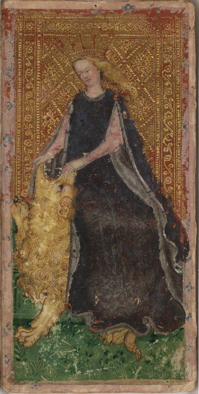 Strength from the Visconti tarot deck